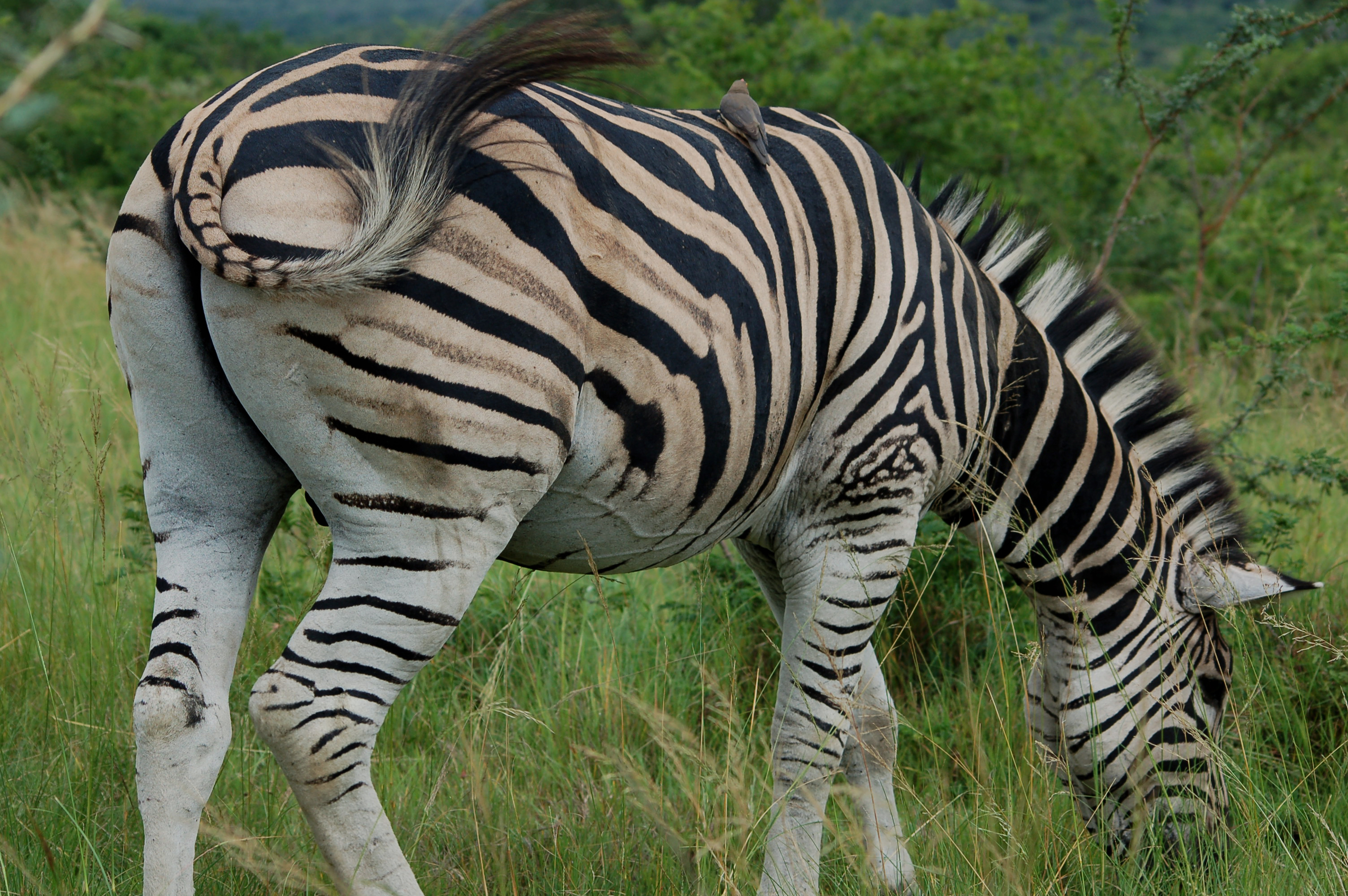 An adult Red-billed Oxpecker on the back of a Zebra at Hluhluwe-Umfolozi Game Reserve, South Africa.